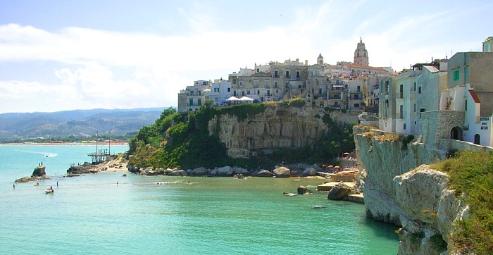 Vieste on the Gargano coast picture taken by user:Idéfix, july 2005